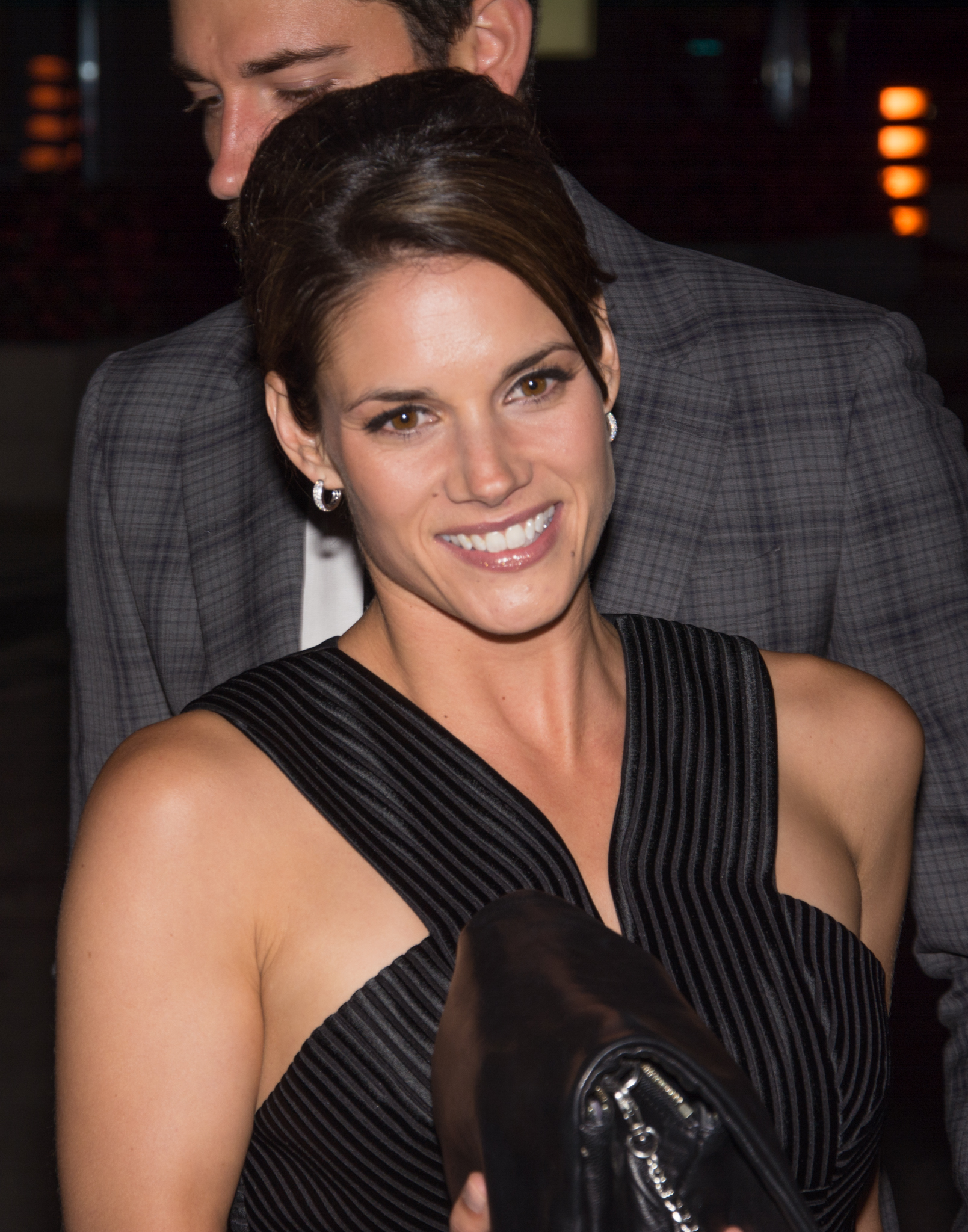 Actress Missy Peregrym arriving for the Hollywood Foreign Press Association & InStyle's 2014 TIFF Celebration